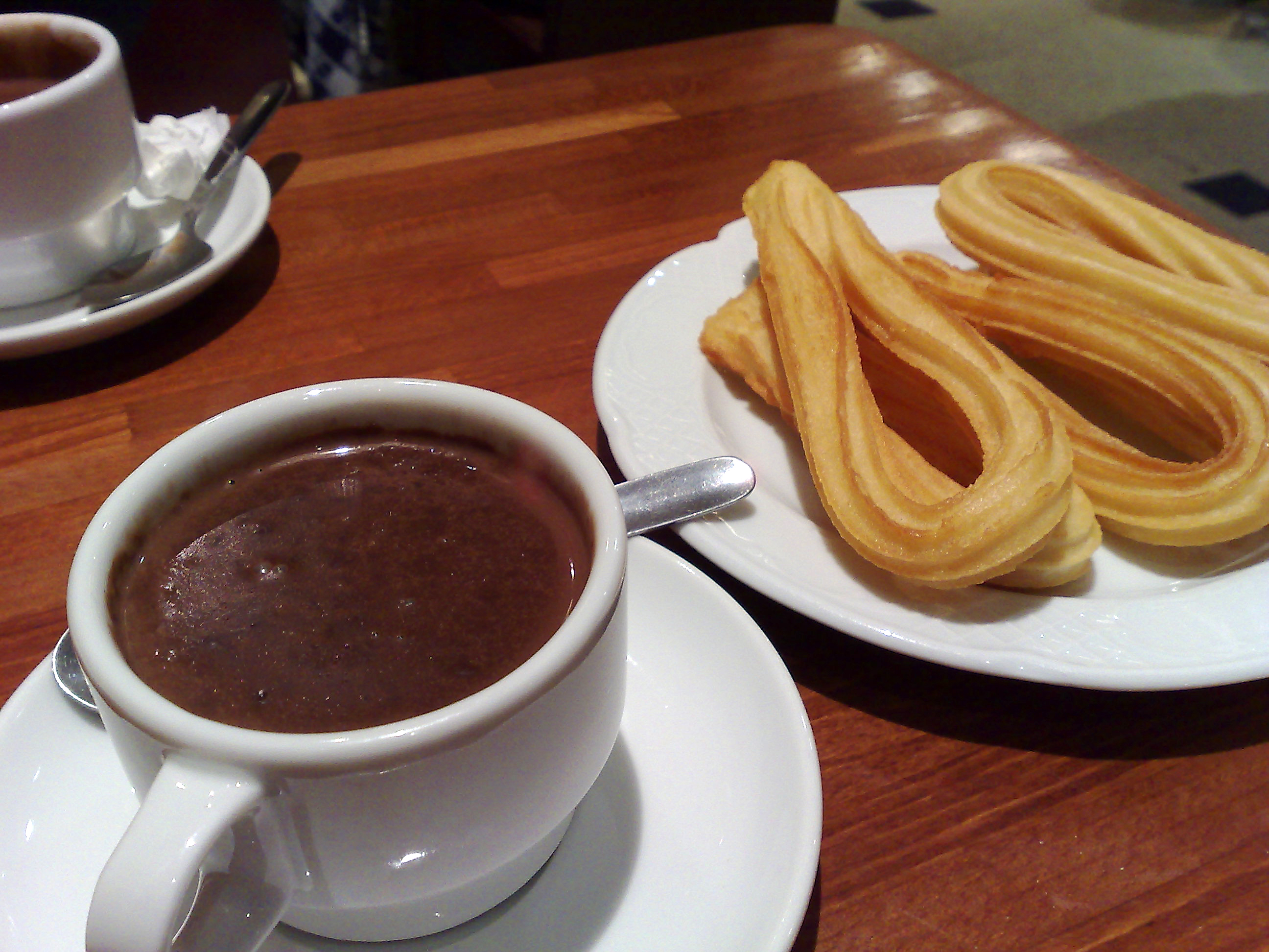 Churros & Hot Chocolate at Barcelona.